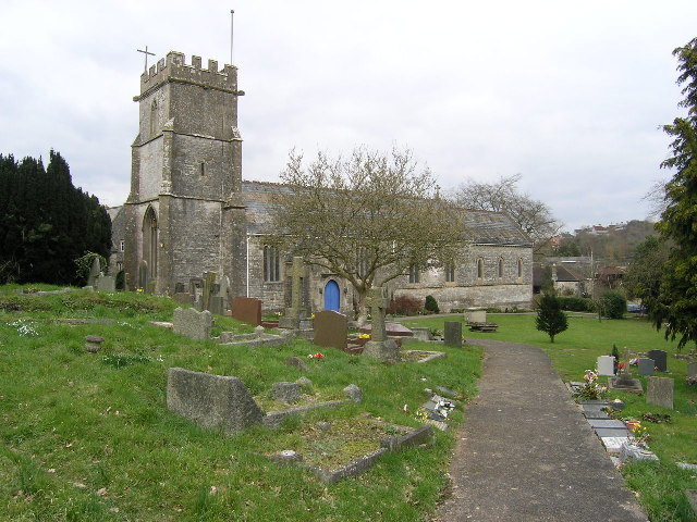 Radstock (Somerset) St Nicholas Church.